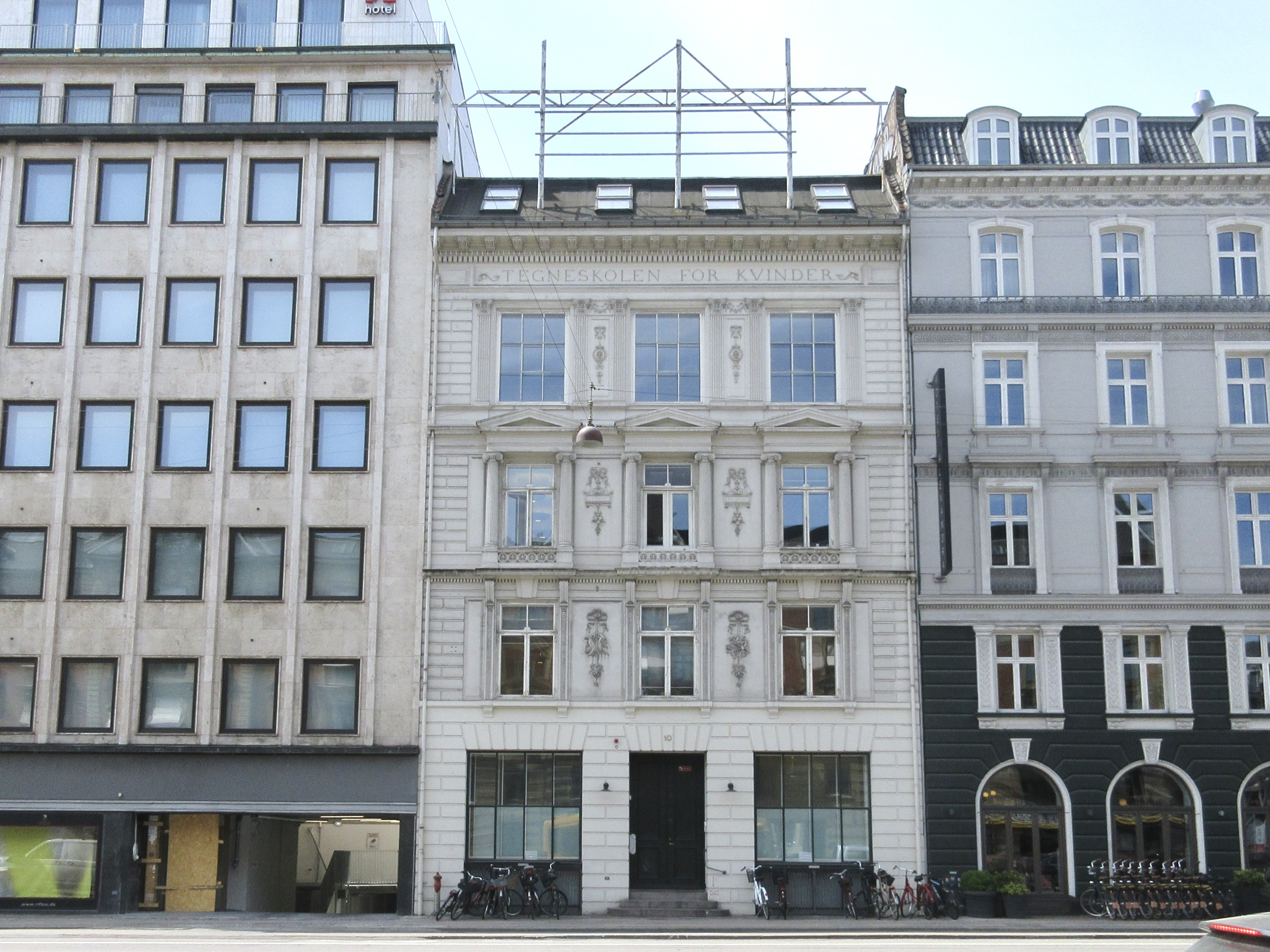 Tegneskolen for Kvinder in Copenhagen, Denmark